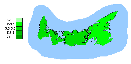 Map made by uploader (User:Earl Andrew); see [1] (question about source) and [2] (response).